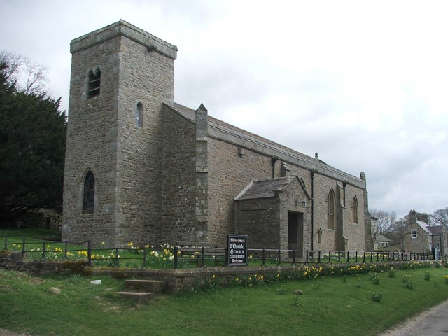 St Oswalds Church. Castle Bolton.